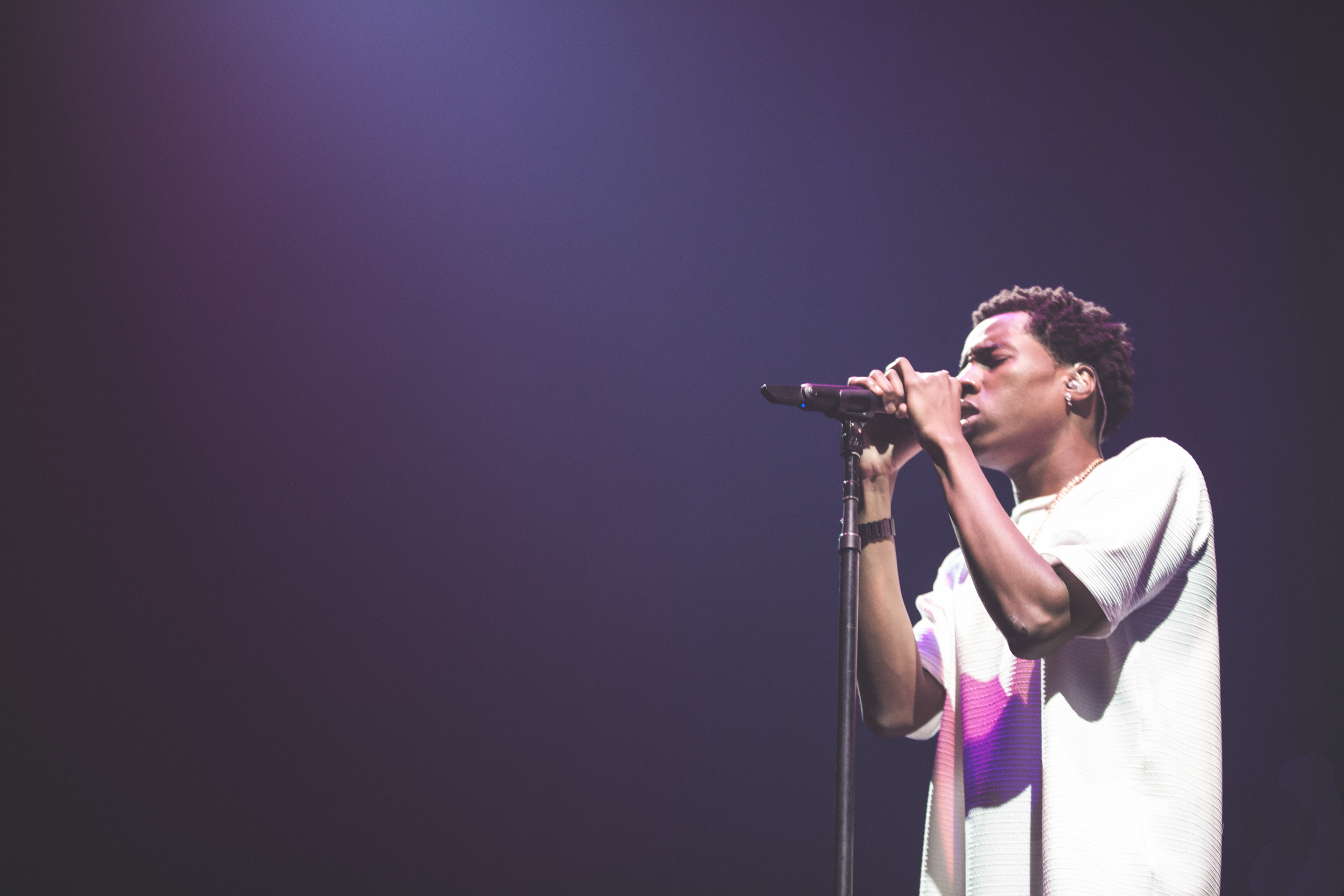 Drake and Future 2016 Summer Sixteen Tour featuring Baka, Roy Woods, and DVSN at the Air Canada Centre in Toronto. Photography by Charito Yap